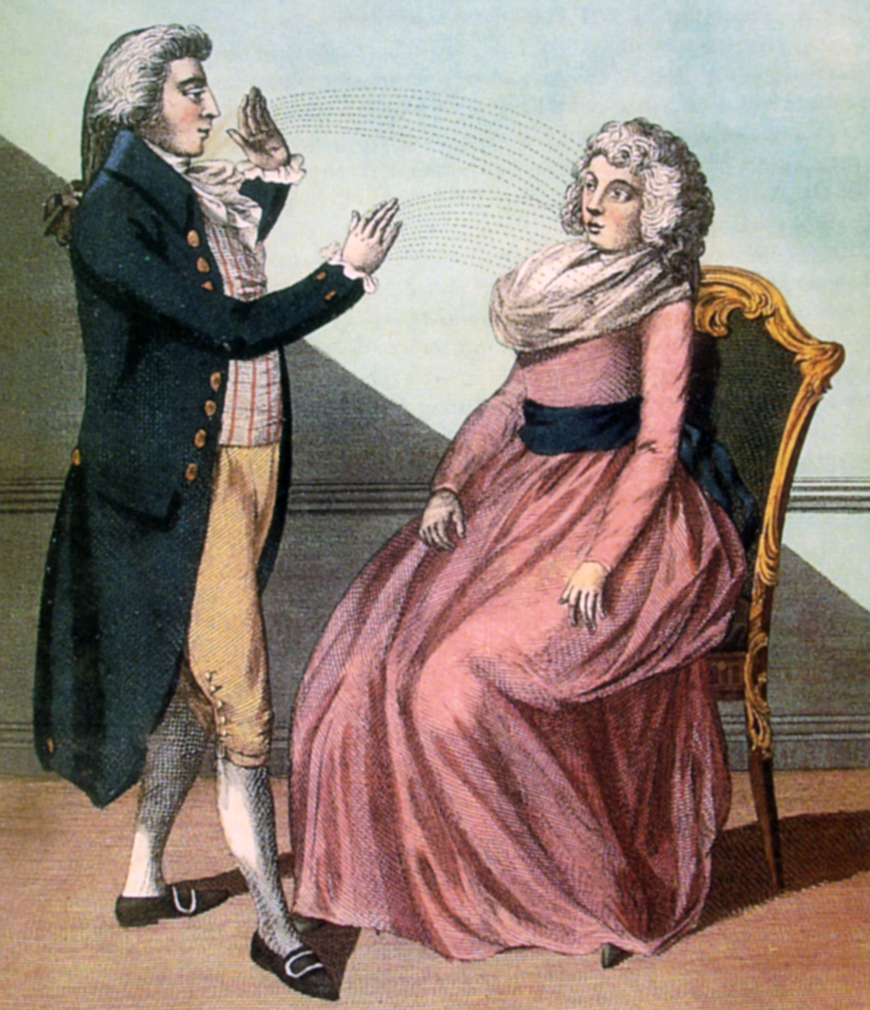 Mesmerism: The Operator Inducing a Hypnotic Trance, engraving after Dodd, 1794. Plate from Ebenezer Sibly's book, A Key to Physic, 1794.